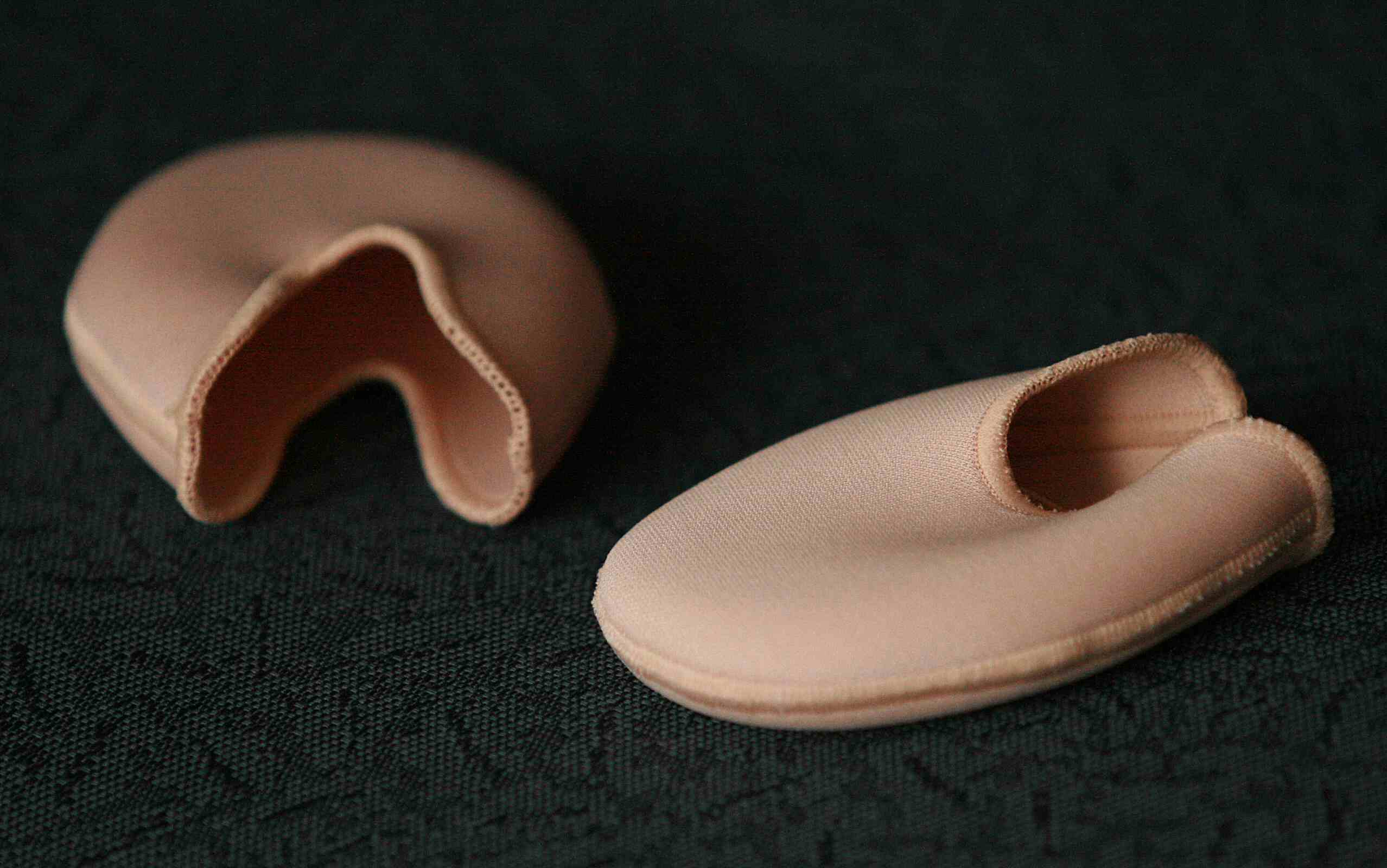 Pointe shoe toe pads. These encapsulate a dancers feet to cushion them against the rigid walls of pointe shoe toe boxes.